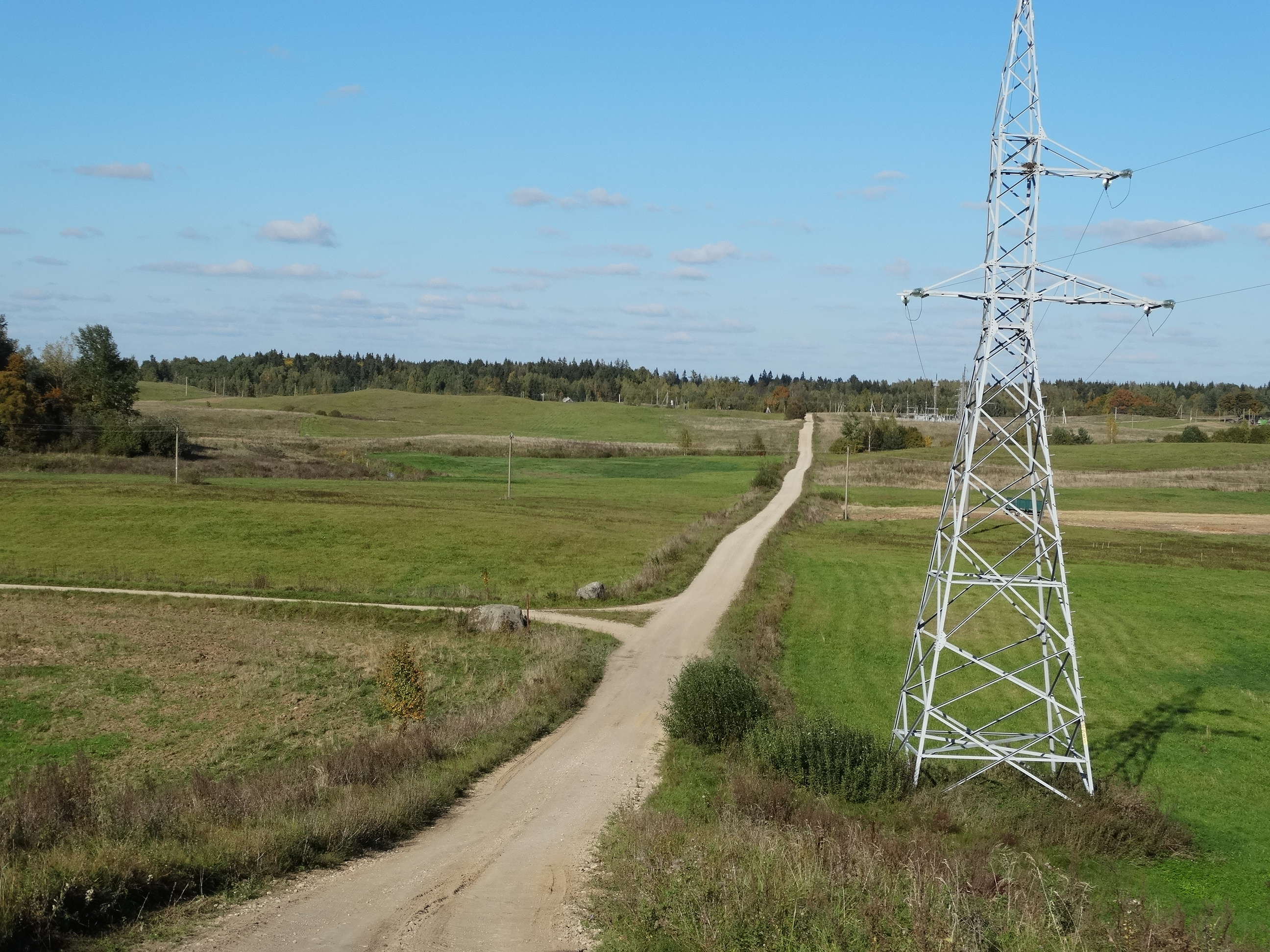 Varkalės II, III Stones in Varkalės, Kaišiadorys District, Lithuania